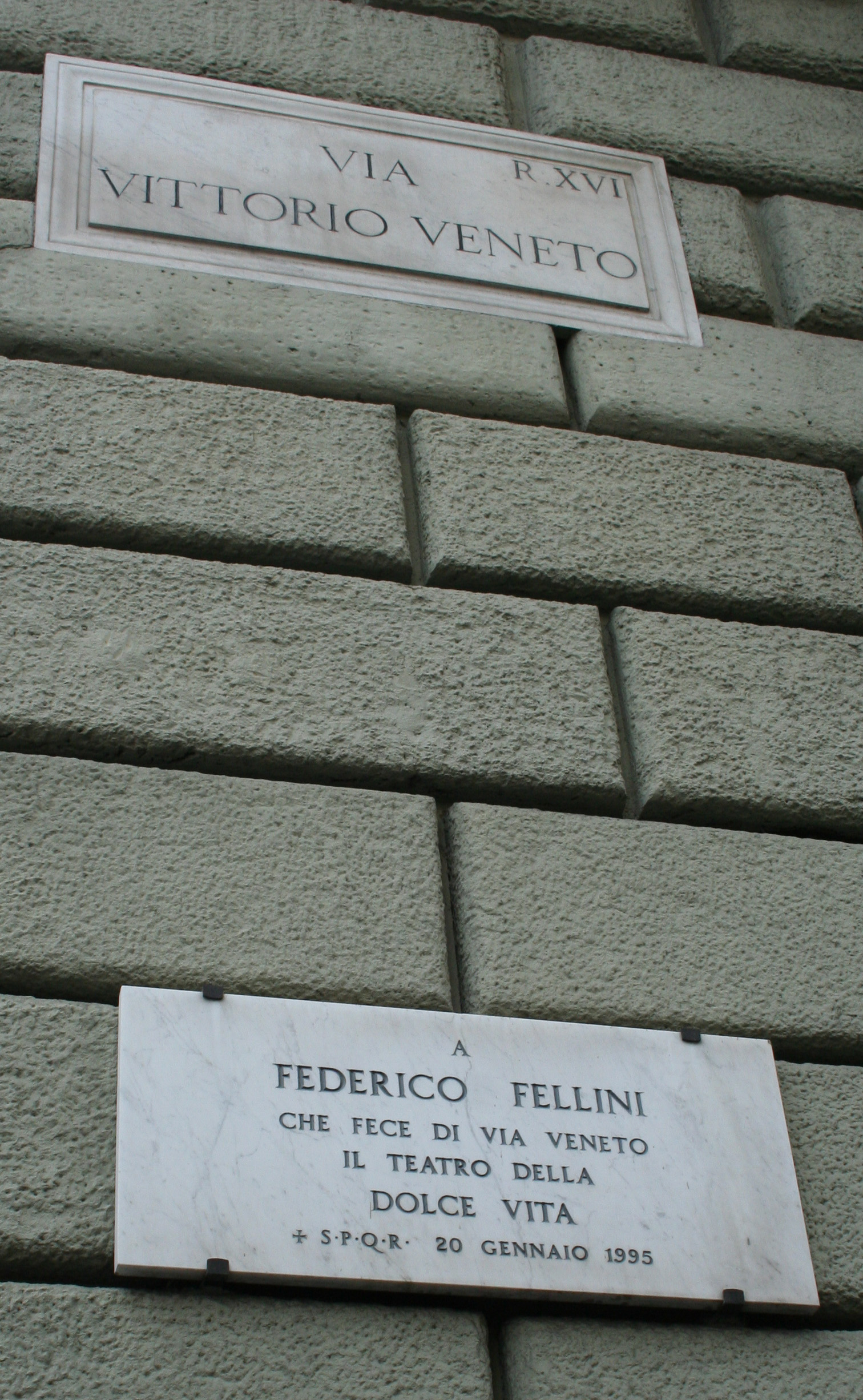 Plaque to Federico Fellini on the Via Vittorio Veneto, Rome, Italy